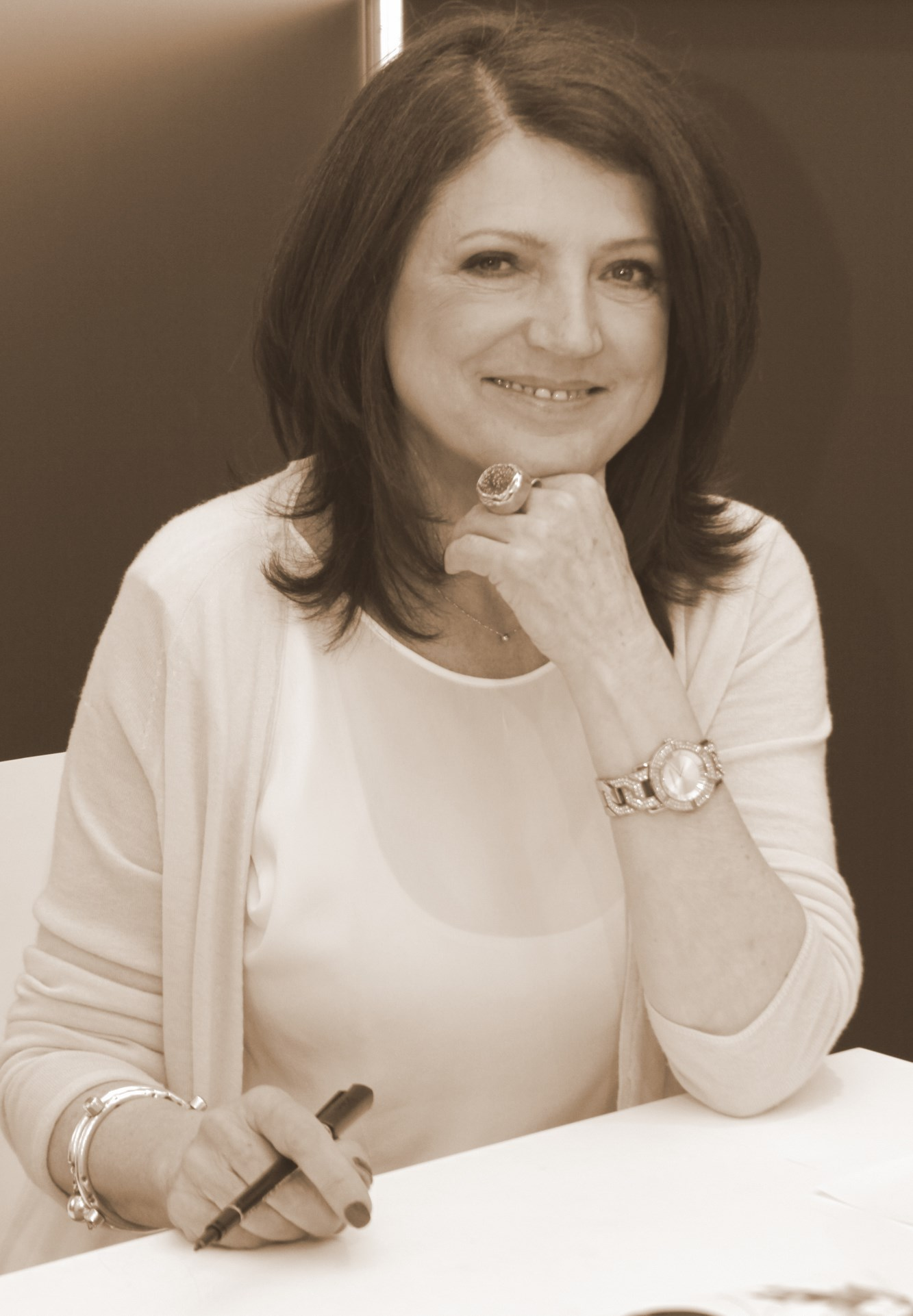 U. Dudziak during a book promo meeting.